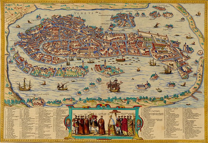 View of Venice, engraving by Hogenberg and Braun from the Civitates Orbis Terrarum, 1571-1617, with hand colouring